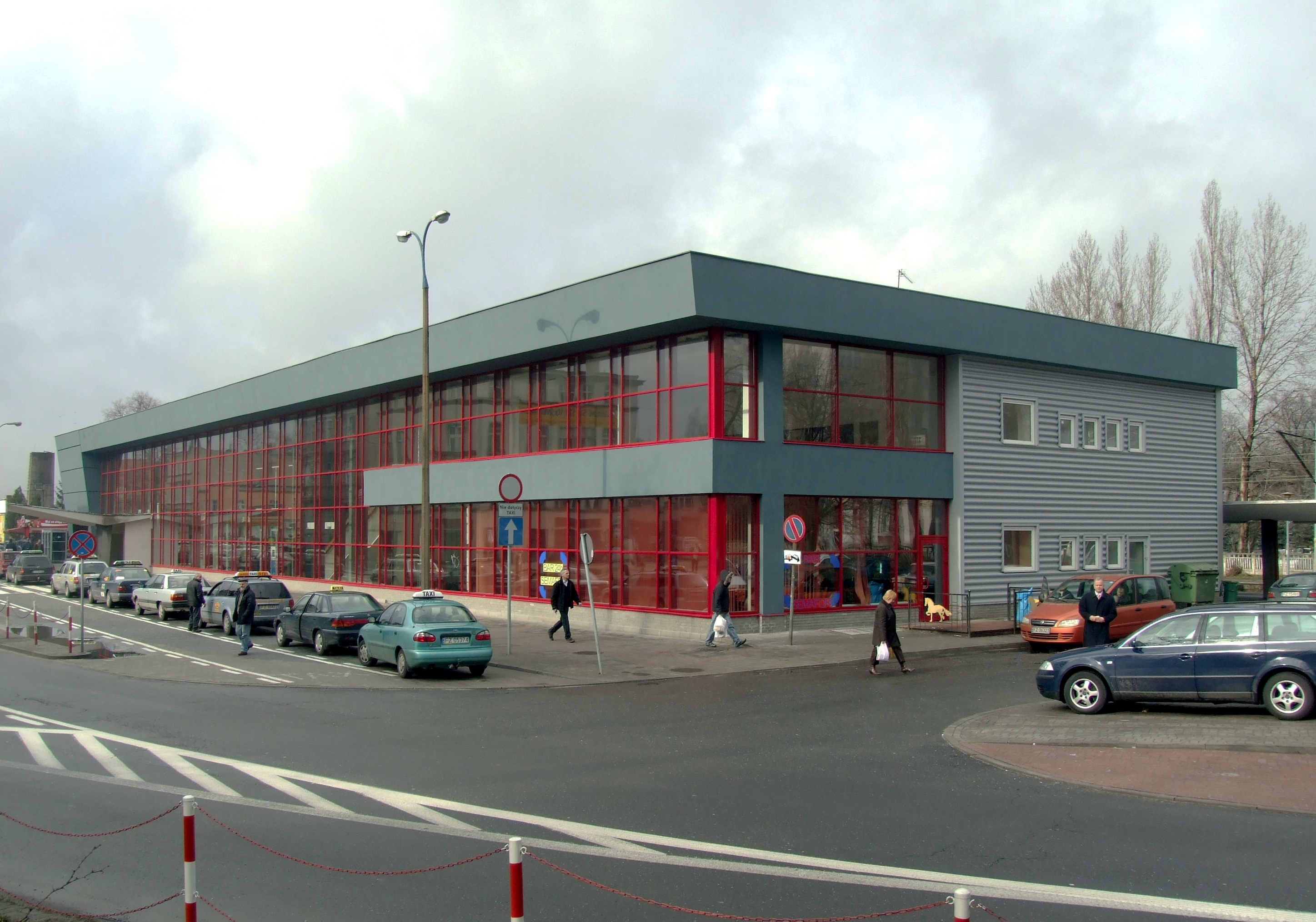 Railway station in Zielona Góra, Poland author: Mohylek 16:16, 17 February 2007 (UTC)